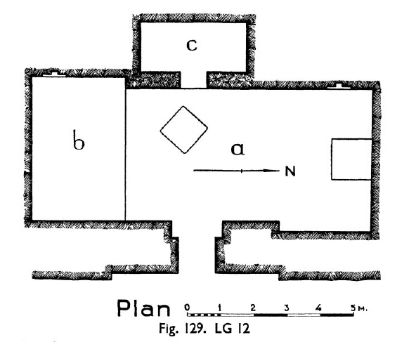 Plan of the Giza Tomb LG 12